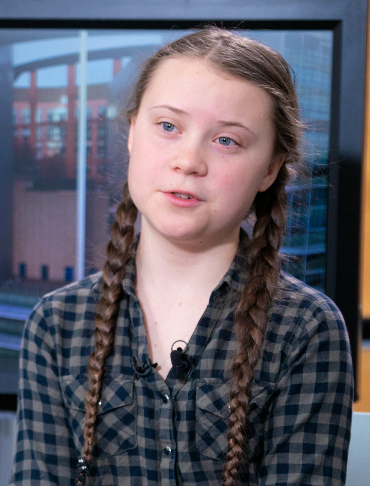 Greta Thunberg at the Parliament